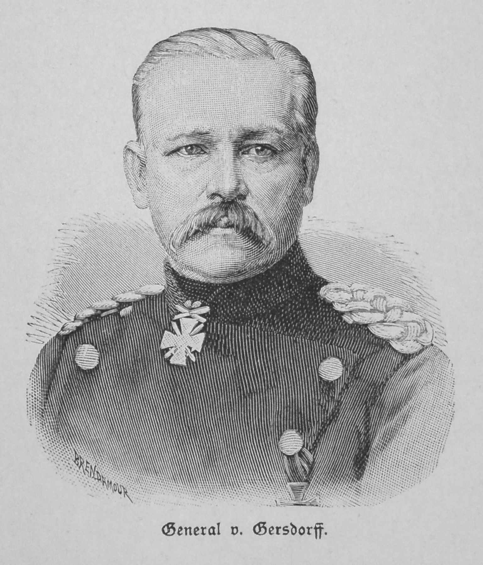 general von Gersdorff